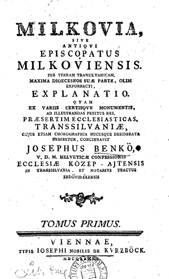 József Benkő: Milkovia (front page)